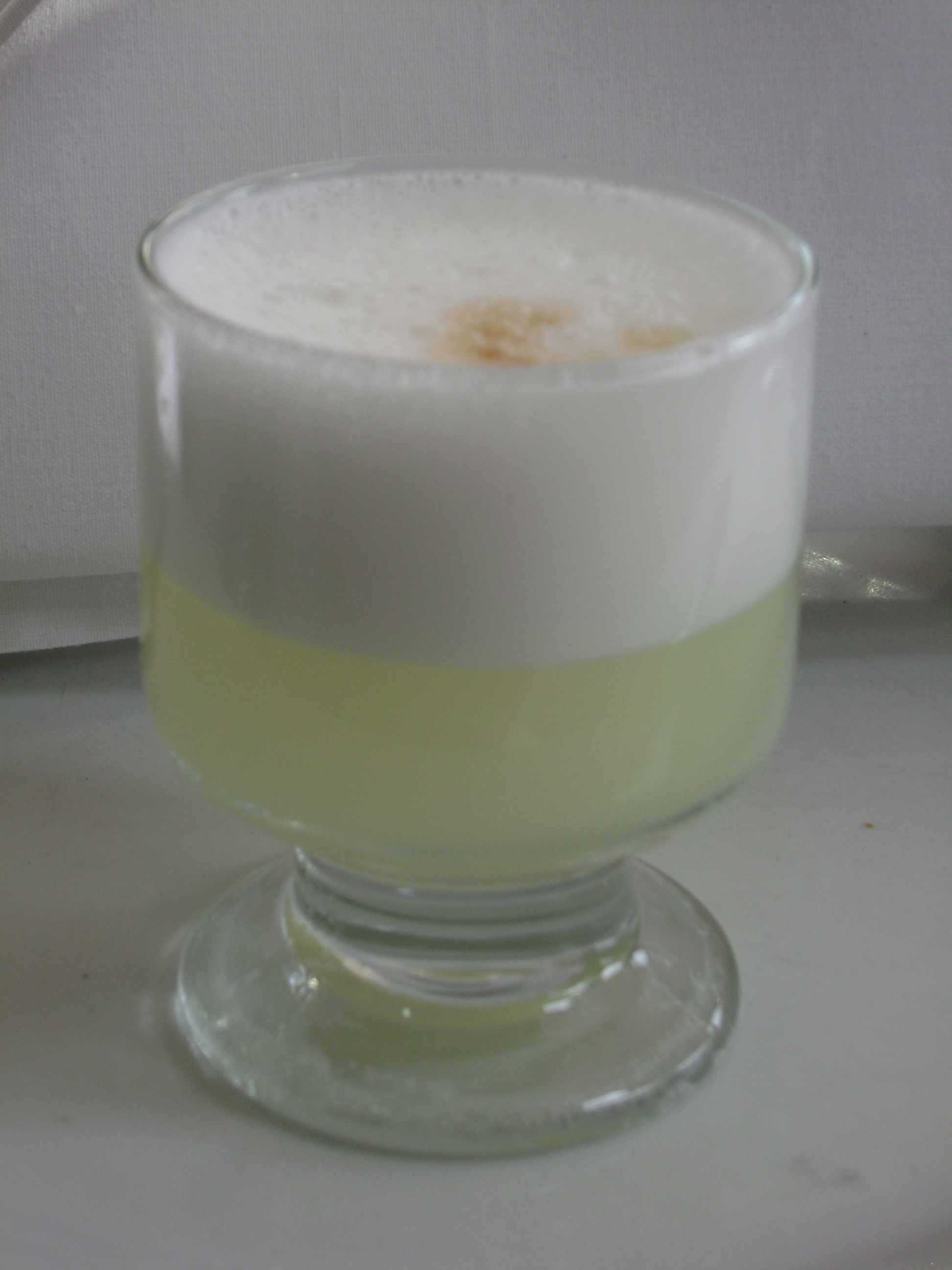 Traditional Pisco Sour of Peru